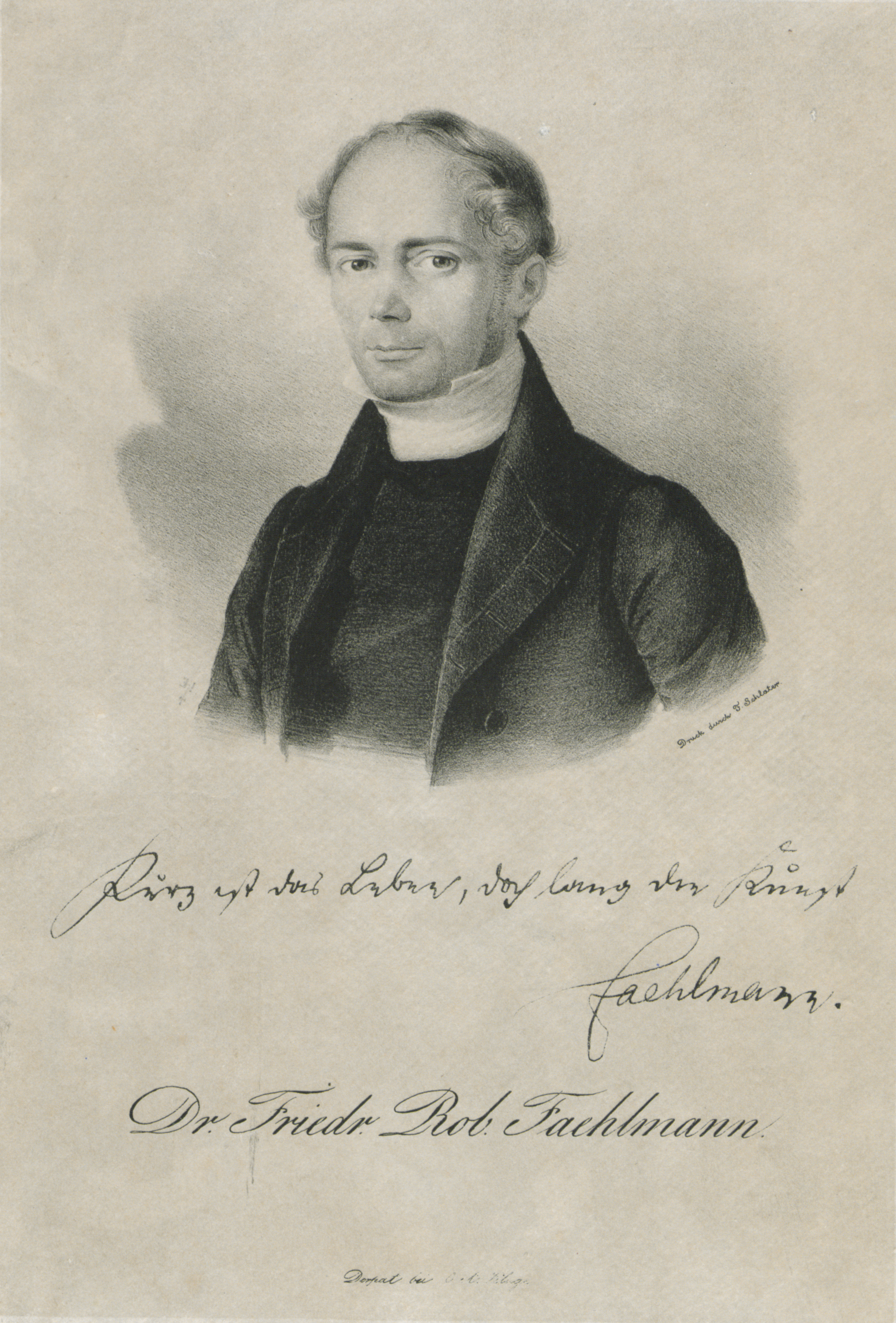 The autograph below presents Faehlmann's favourite maxime: "Kurz ist das Leben, doch lang die Kunst", "The life is short, but(*) the art long(**)".That sentence was set on his grave in Estonian later.(*) as a conjuction, mot as a preposition; (**) here meaning something like "eternal"